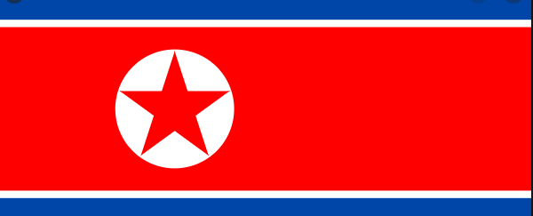 North Korean National Flag